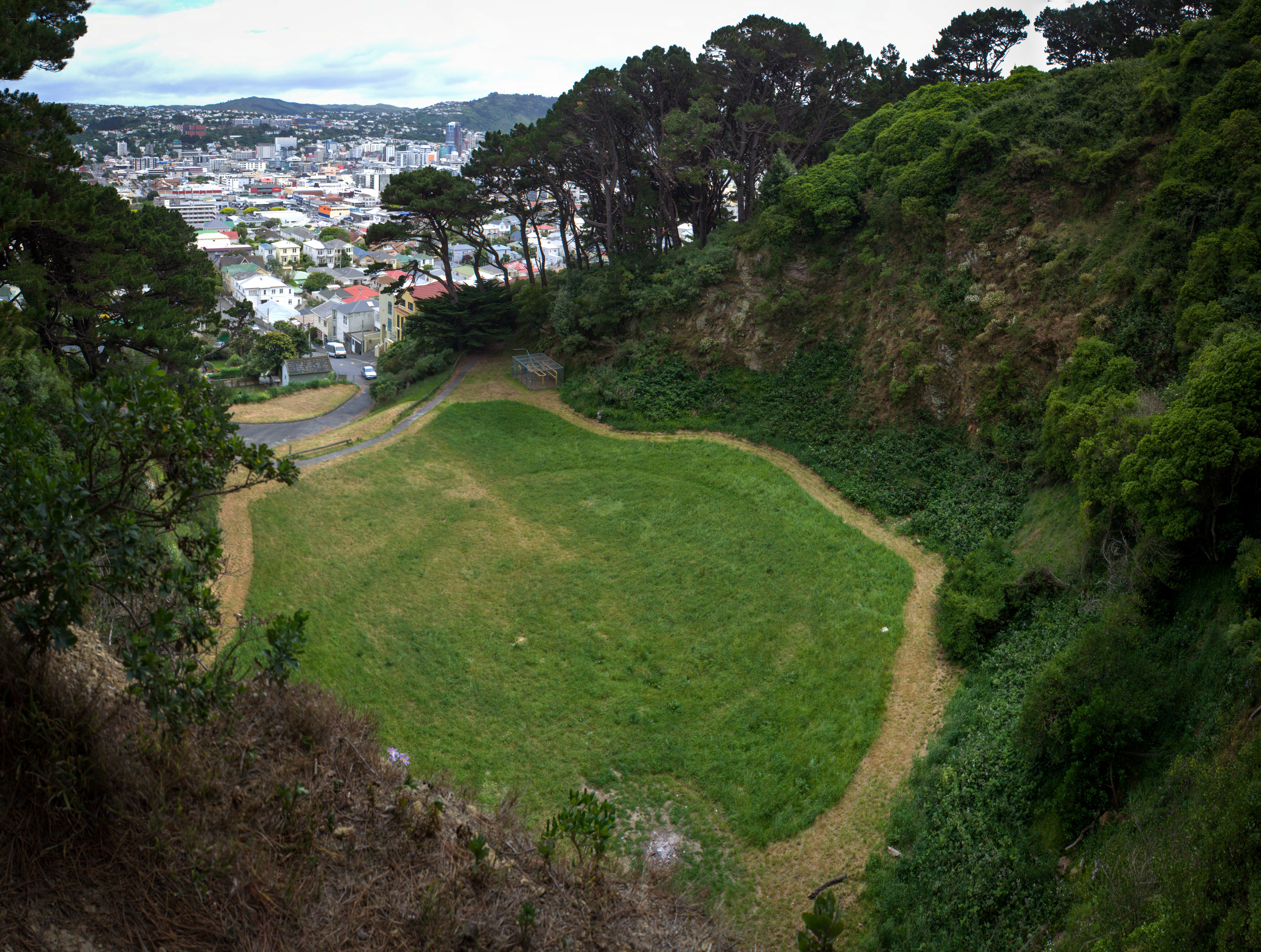 Mount Victoria Quarry Seen as Dunharrow in The Return of the King.